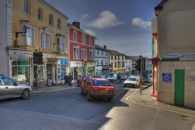 View Down Coinage Hall Street, Helston. On the corner of Church Street